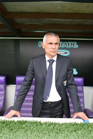 Former football defender (now manager) Hector Cuper during a Fiorentina-Parma match